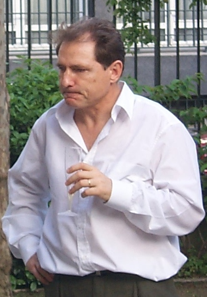 Pr Jacques Lewiner (left) and Pr Jacques Prost (right), respectively former scientific director and former general director of the Paris higher education school in physics and chemistry (ESPCI), having intense scientific discussion in the garden of Curie Institute, Paris, during the celebration day honoring Pr Françoise Brochard-Wyart (Légion d'Honneur).